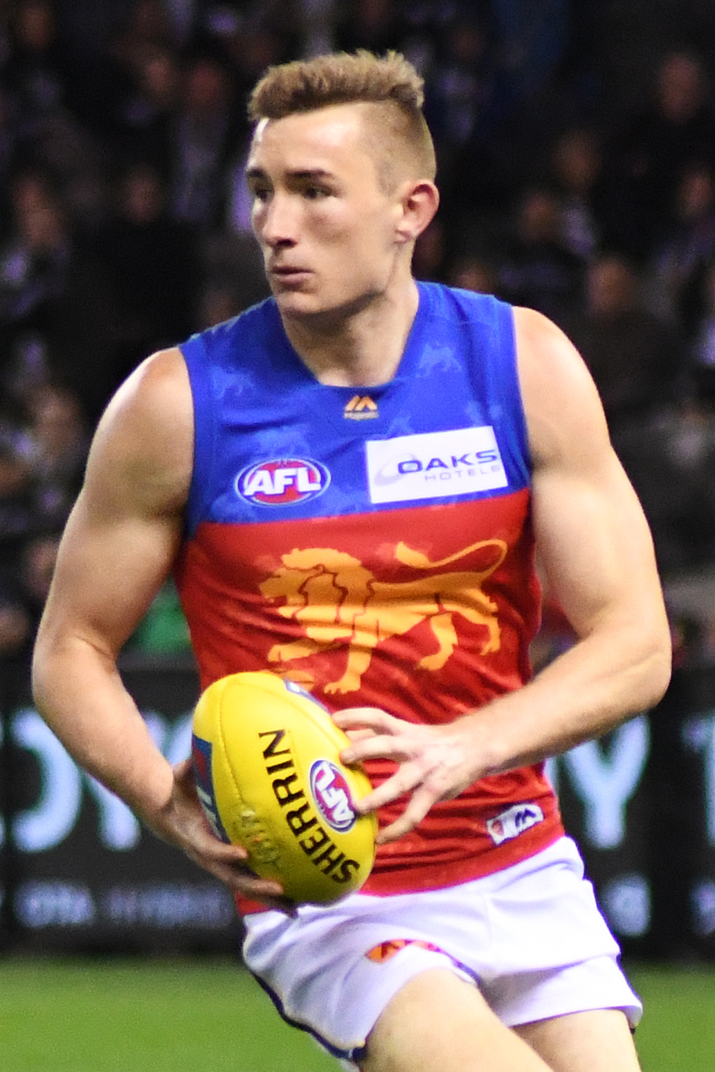 Harris Andrews of Brisbane handballing during the 2018 AFL round 21 match between Collingwood and Brisbane at Etihad Stadium on Saturday, 11 August 2018 in Melbourne, Victoria.